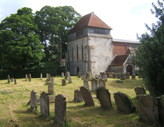 Church of St Michael and St Felix in Rumburgh, Suffolk, England. A Grade I listed medieval church.